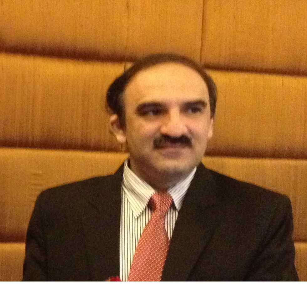 Ajmal shams' new photo